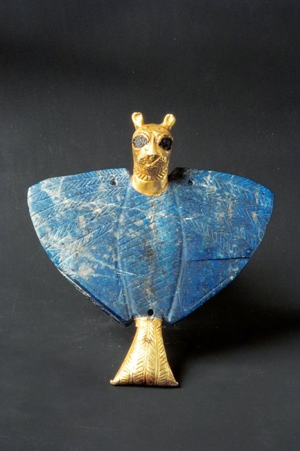 UNESCO Lion Eagle, Damas Museum